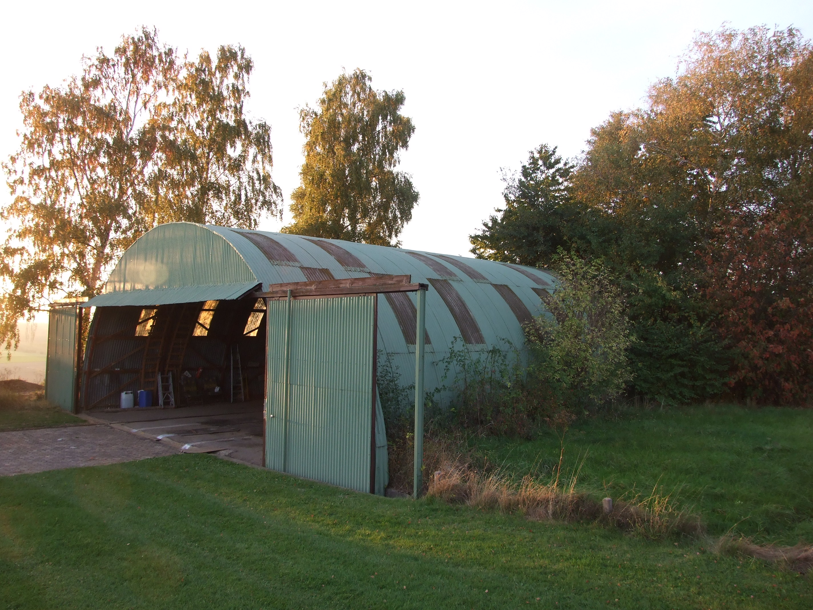 Hangar which get up in years at Bad Gandersheim airport